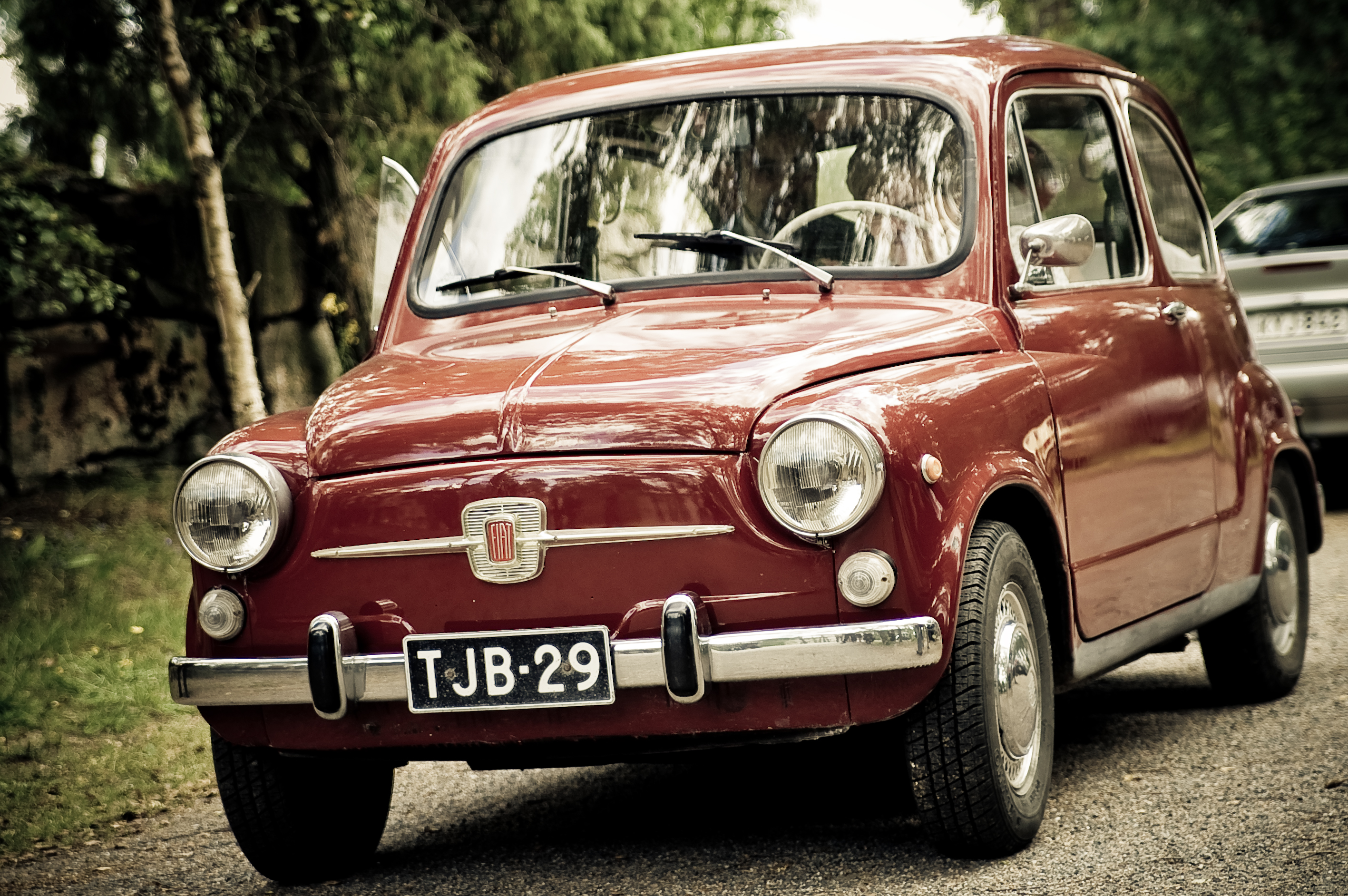 Fiat 600 in Finland